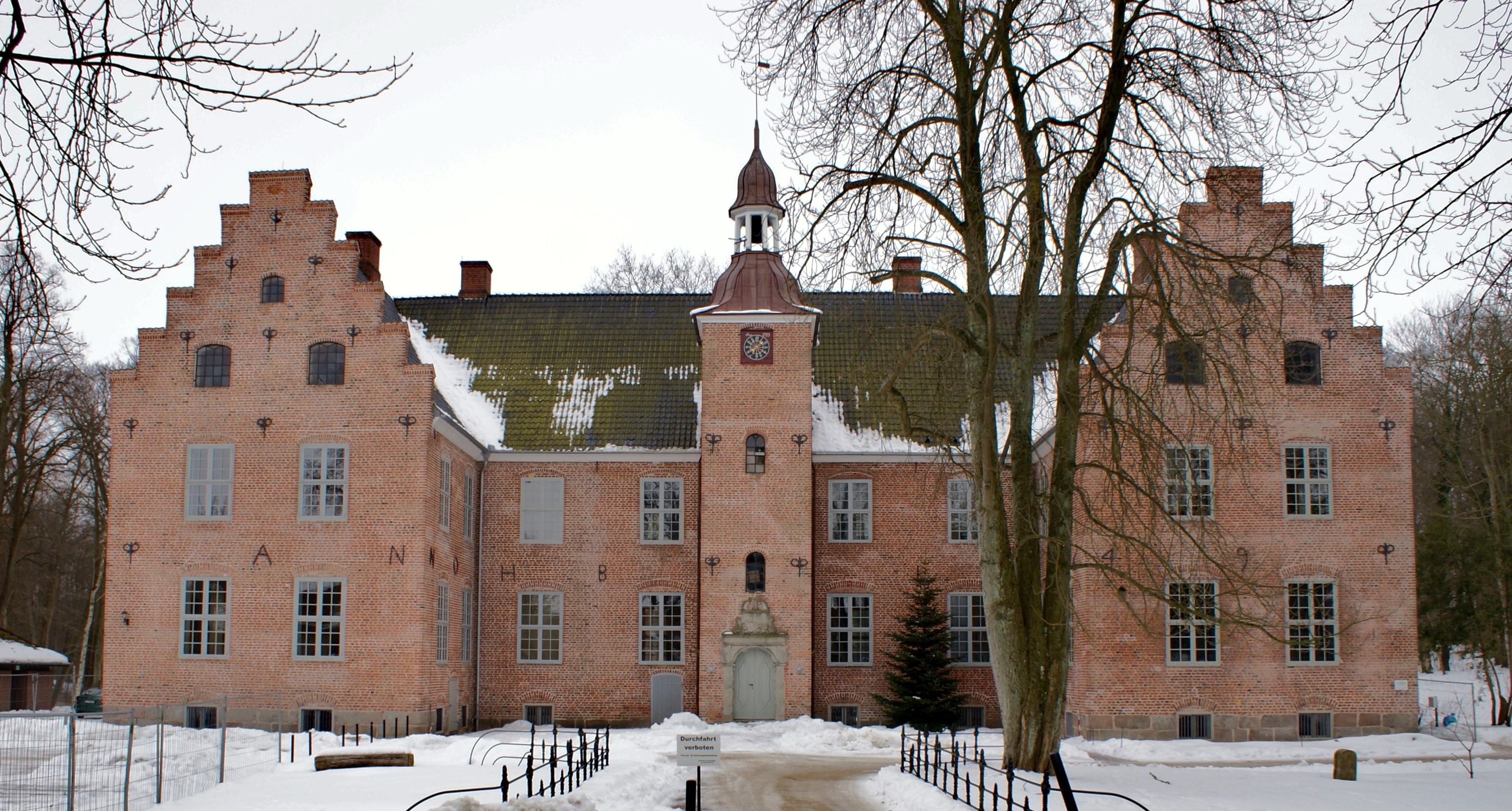 Hagen Manor